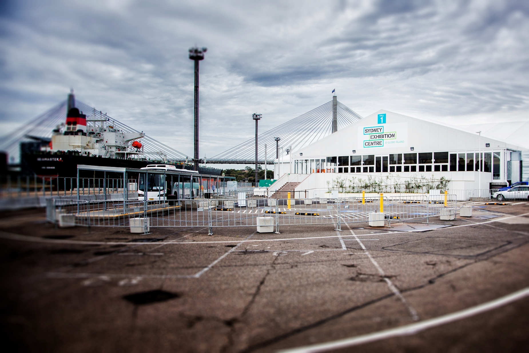 A view of Hall 1 looking back to the ANZAC Bridge.